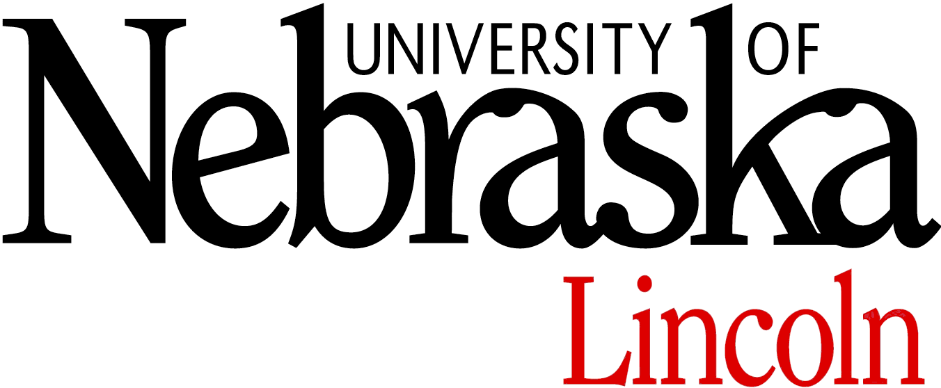 The official logo of the University of Nebraska-Lincoln.